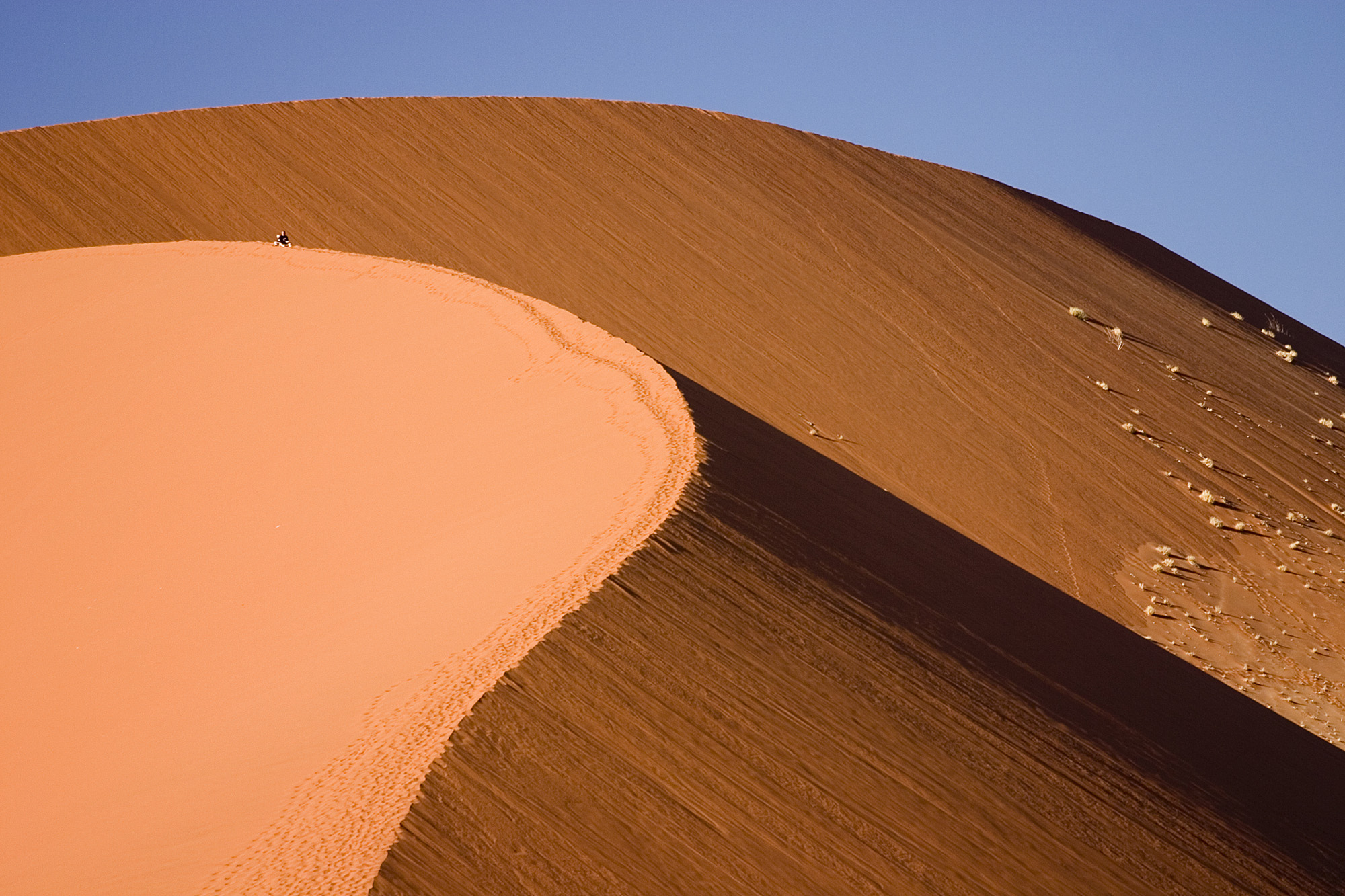 Dunes in Sossusvlei region, Namib-Naukluft National Park, Namib Desert, Namibia.